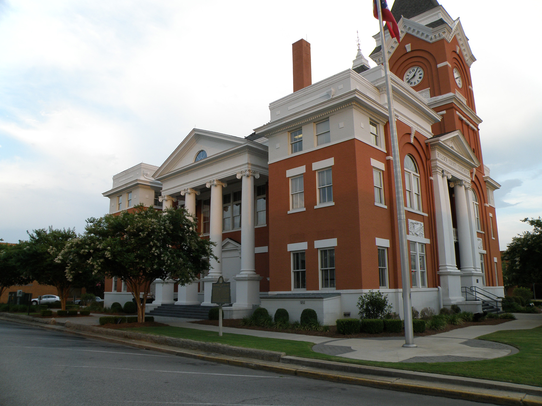 Right oblique view of location where historical marker Image:HistoricalMarkerUSGeorgiaMarchToTheSeaStatesboro.jpg is located on the grounds of the Bulloch County courthouse in Statesboro, Georgia.